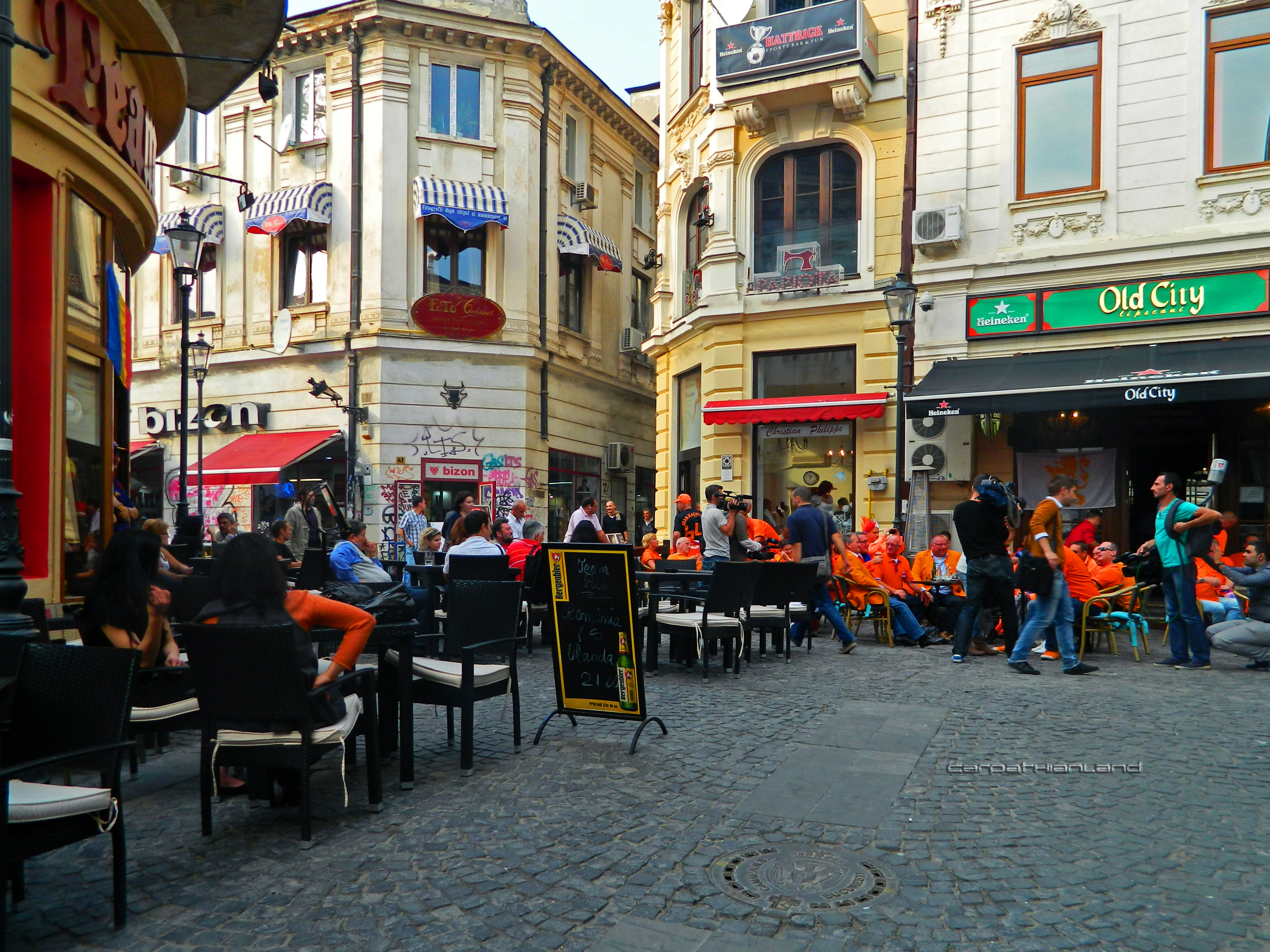 Lipscani, Bucharest